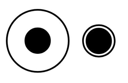 The left circle is the same size as the right one, but the right circle seems larger